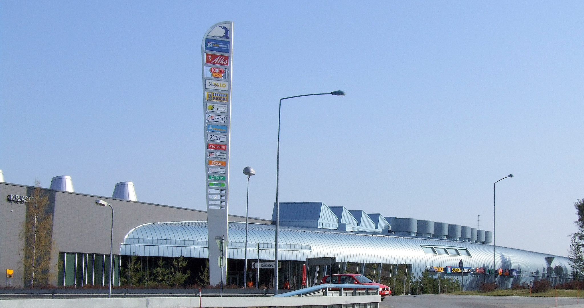 The Kapteeni shopping centre in Oulusalo, Finland.